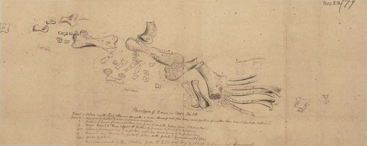 Sketch of bones in a skeleton of a dinosaur drawn by Arthur Lakes, who was on an expedition with Othniel Charles Marsh of Yale University. Image courtesy of the Othniel C. Marsh Papers, Yale University Manuscripts & Archives Digital Images Database.